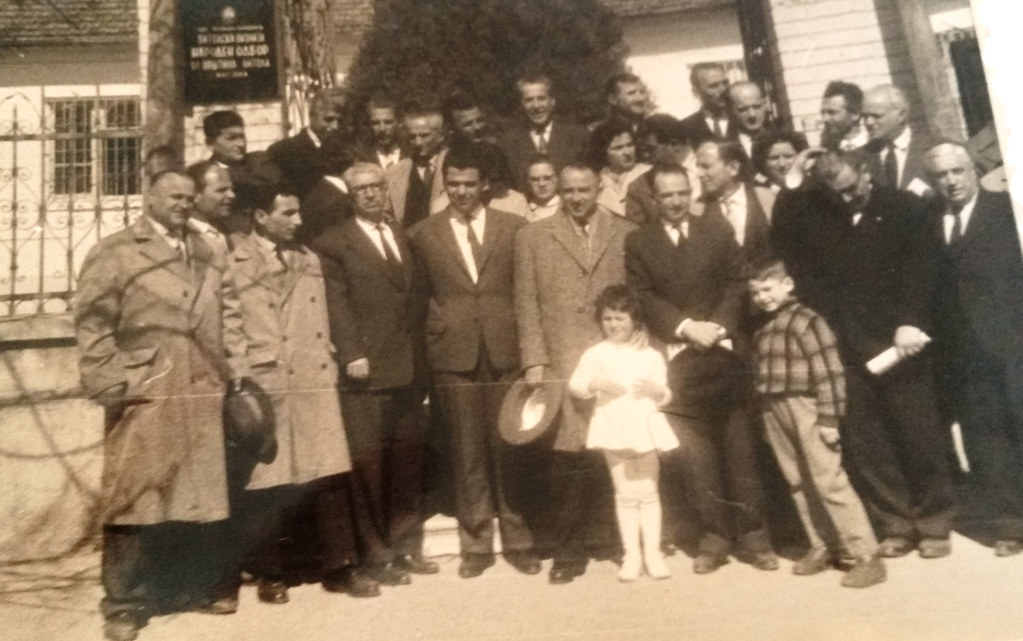 Abravanel and Bitola community. Credit: For the commemoration of Dr. Salvator and Reni Levy, the Abravanel and Levy Families, and the community of Macedonian Jews.